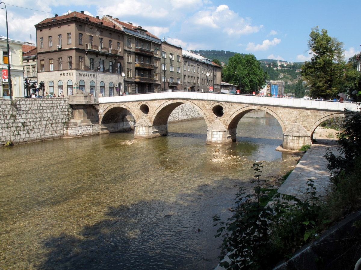 from a trip documented on Bosnia